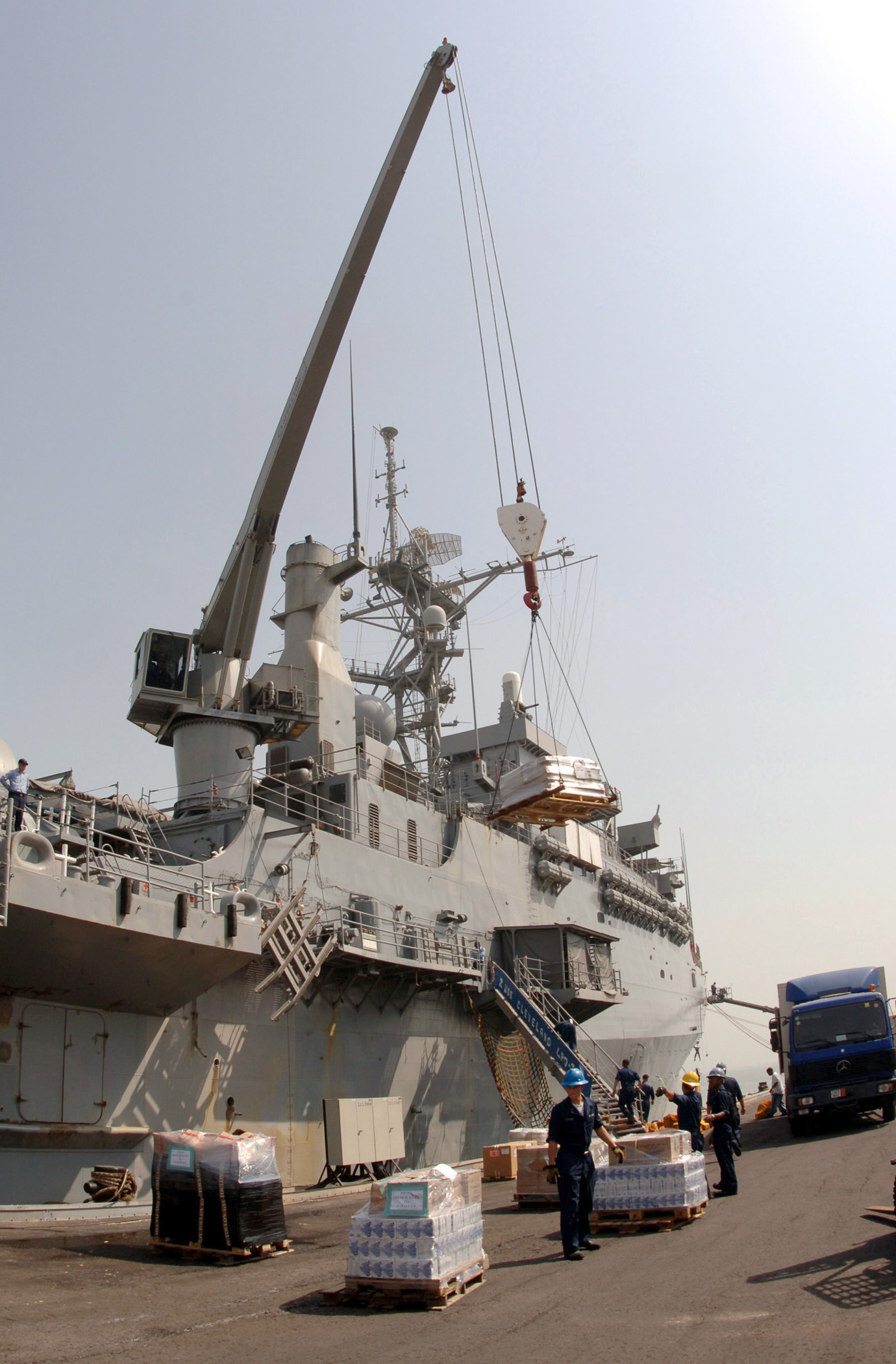 Manama, Bahrain (Oct. 19, 2005) - Sailors assigned to the amphibious transport dock ship USS Cleveland (LPD 7) load pallets of flour, milk and bread bound for earthquake victims in Pakistan. The supply ship FS Var (A608) from the French Navy donated more than two tons of food to the relief efforts, following a devastating earthquake which killed thousands in Pakistan. Cleveland will deliver the food to Pakistan on behalf of the French Navy. U.S. Navy photo by Photographer’s Mate 2nd Class Phillip Nickerson Jr. (RELEASED)